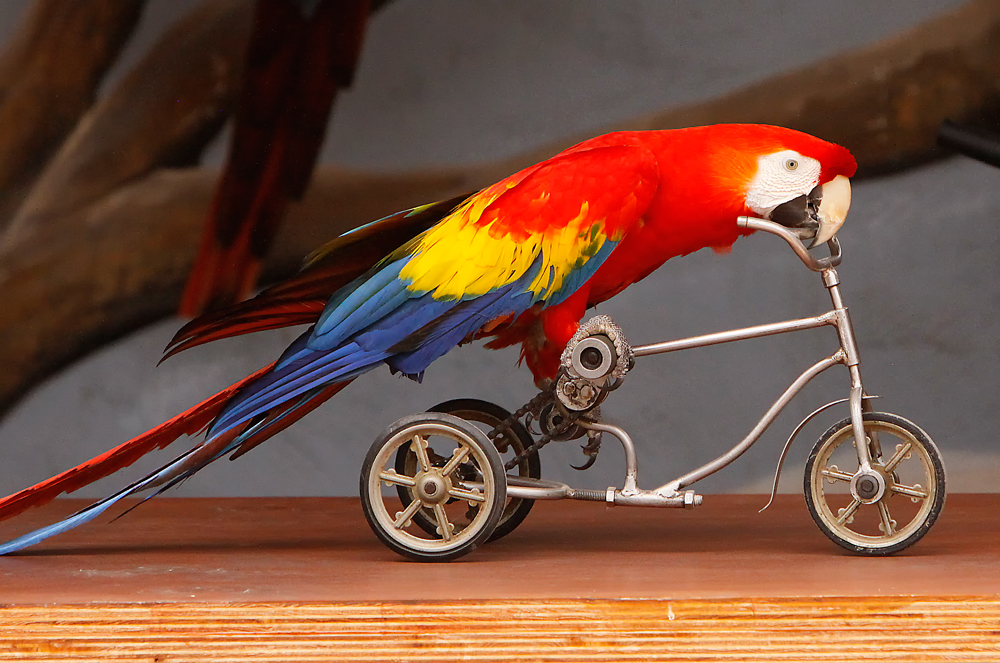 A Scarlet Macaw riding a small tricycle at an exhibition in Spain.